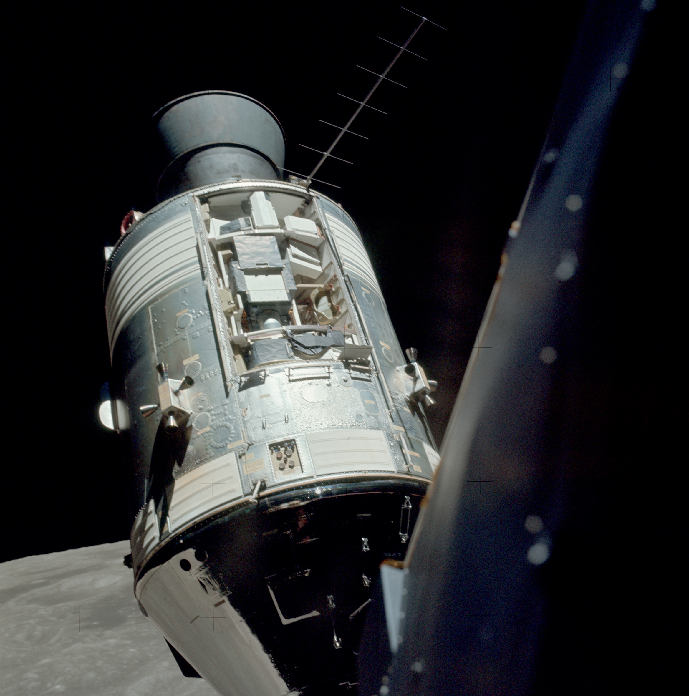 Photograph of the Apollo 17 Scientific Instrument Module (SIM) bay on the Command/Service Module. Taken from the Lunar Module in lunar orbit.